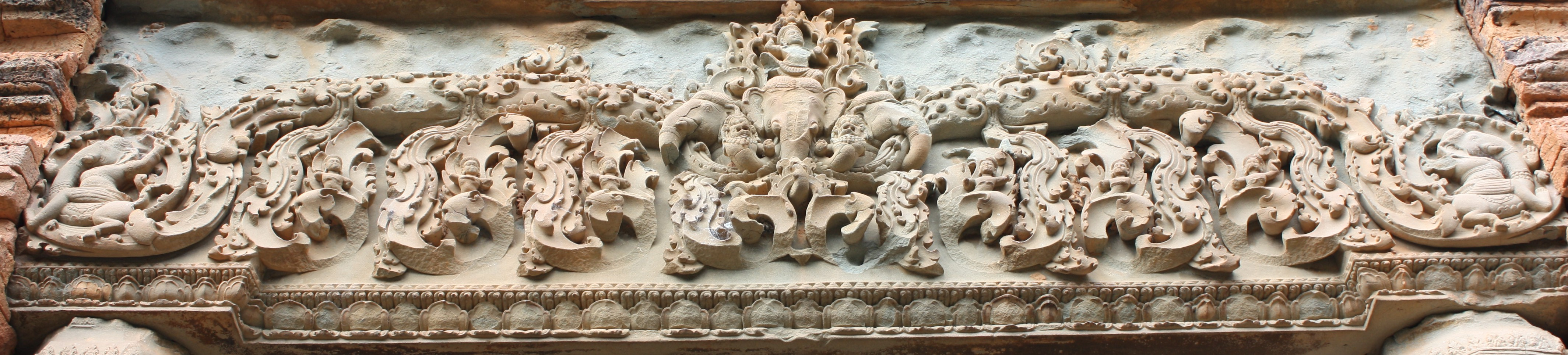 Lintel of Baksei Chamkrong temple. Own work November 2010. HenryFlower 08:06, 17 February 2011 (UTC)